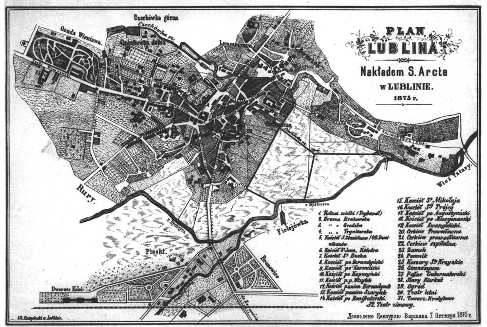 Lublin in 1875.